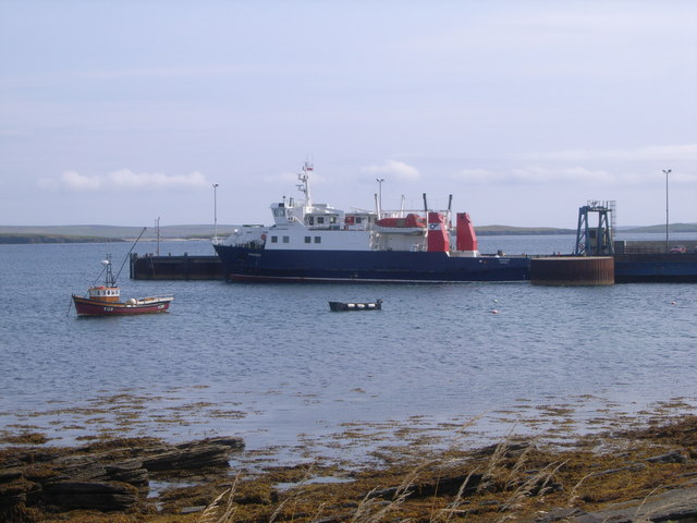 Car ferry at Rapness, Westray This was a nice smooth 90 minute crossing from Kirkwall.